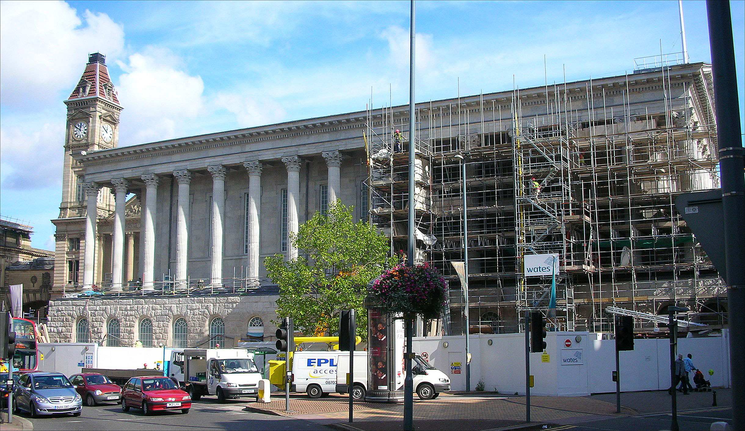 Birmingham Town Hall, Birmingham, England, partly uncovered after years of refurbishment. Photographed by me 18 September 2006. Oosoom